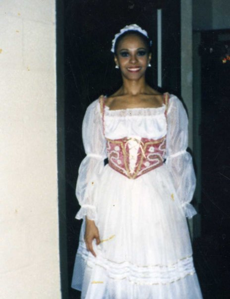 Elena Carter Richardson in costume for Swanhidla in the ballet Copellia. This performance was in the mid-1980s with Pacific Ballet Theatre, the precursor company of Oregon Ballet Theatre.